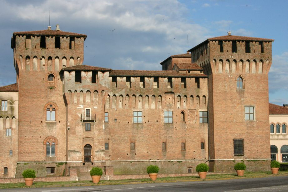 Mantova, Italy, Castle of San Giorgio, Mantua